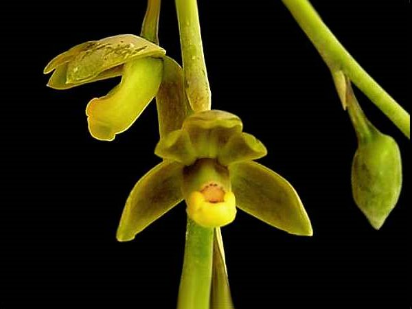 Prosthechea glauca